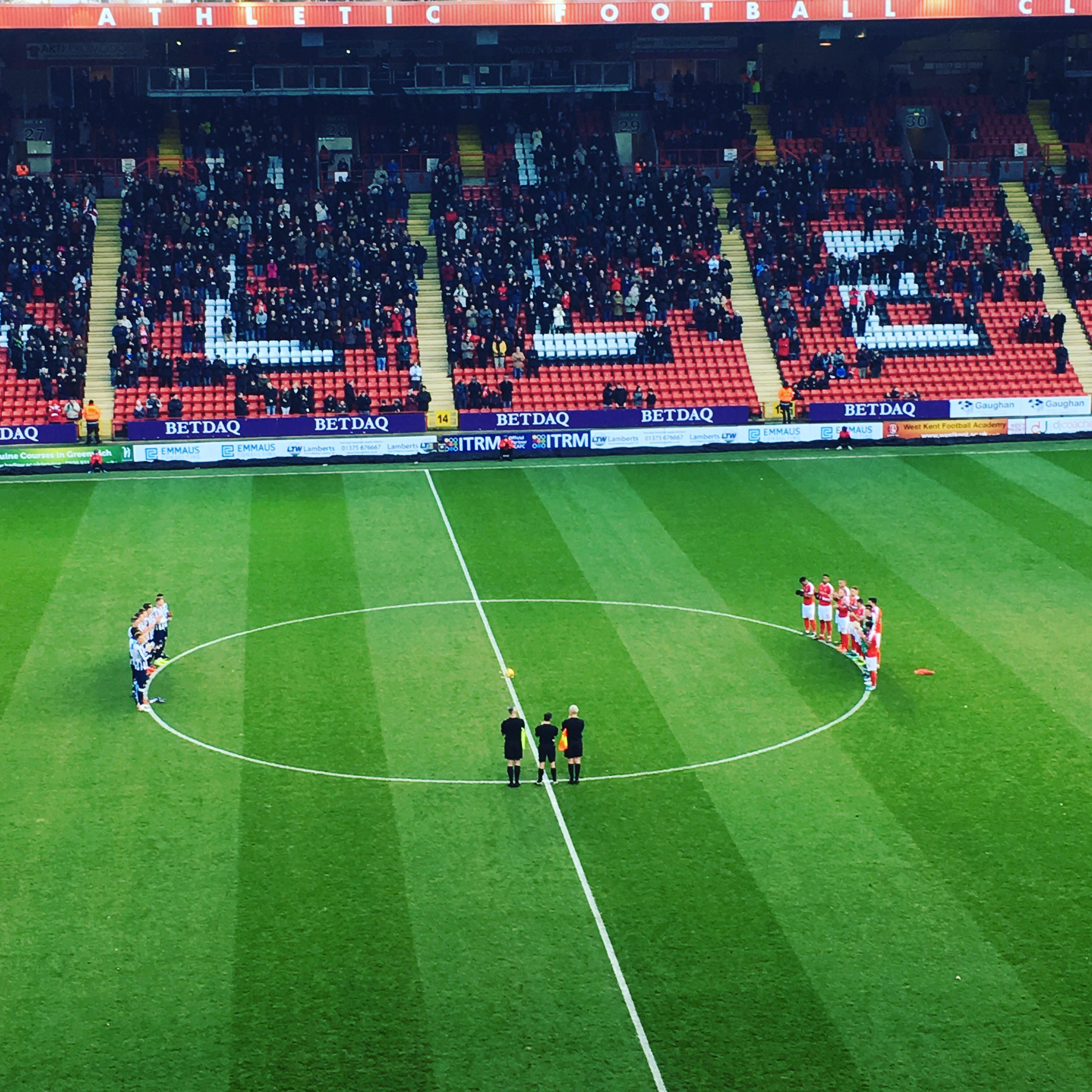 Charlton Athletic and Millwall pay tribute to Graham Taylor in a minutes round of applause